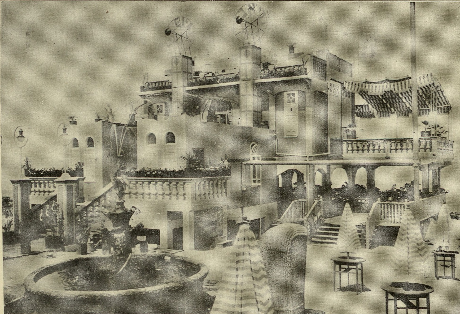 Photo of Casino "Galei Aviv" in Tel Aviv, 1923.